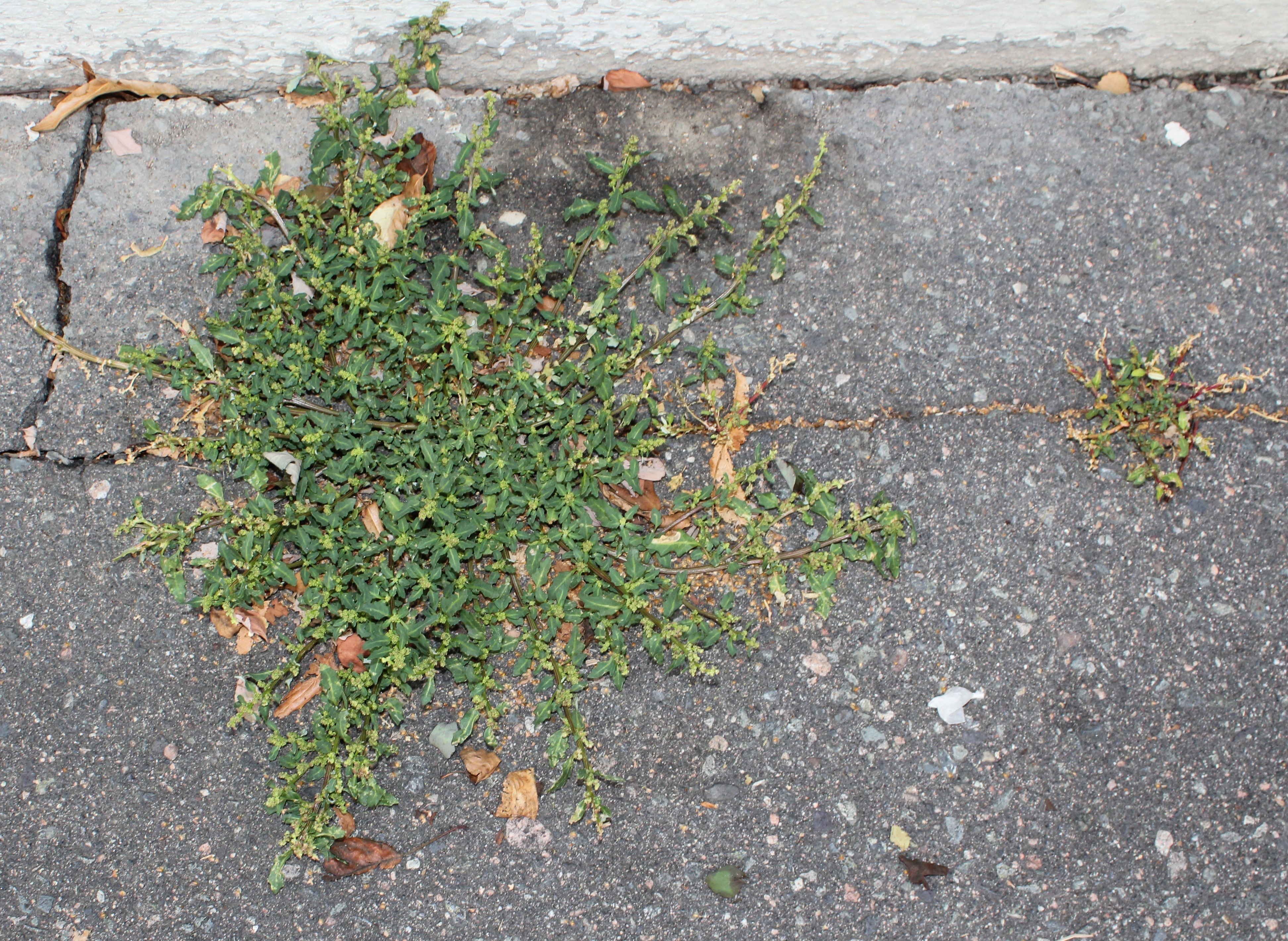 Oxybasis glauca growing on pavement in Eckersbergs gate 24, Oslo, Norway.